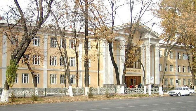 The old building of Tashkent conservatoire on the Pushkin street. 2000